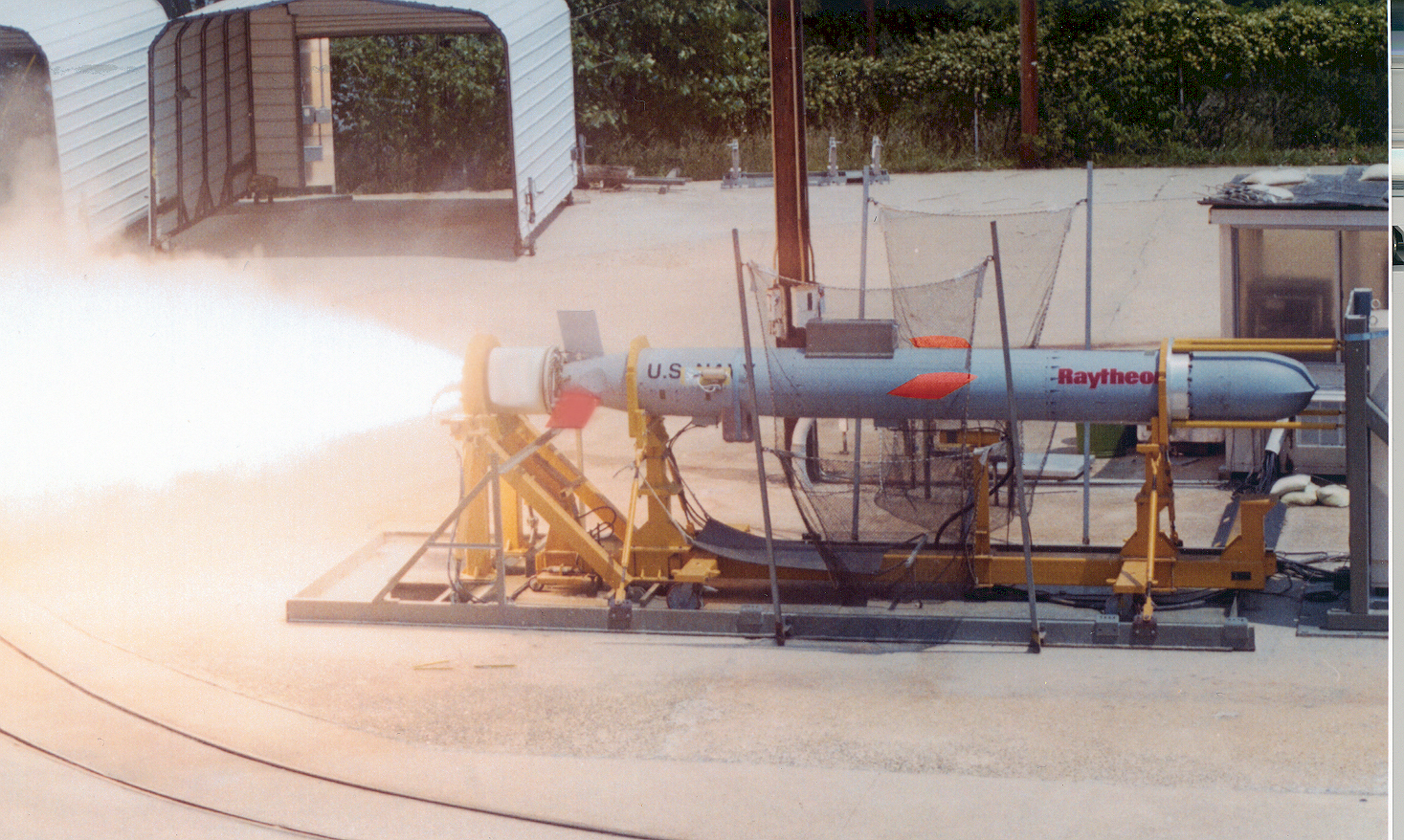 Indian Head, MD (May 17, 2002) – “Tactical Tomahawk,” the next generation of the U.S. Navy’s “Tomahawk” cruise missile, underwent a successful functional ground test (FGT) on May 17 at the Rocket Motor Test Facility located in Maryland. The test was conducted as a risk mitigation event prior to the first Tactical Tomahawk test flight. The successful completion of this test was a major milestone of this new cruise missile being developed for the Navy by Raytheon Systems. U.S. Navy photo. (RELEASED)